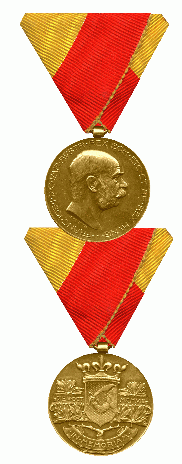 Bosnisch-Hercegovinische Erinnerungsmedaille Medal of Rememberence Austria 1908